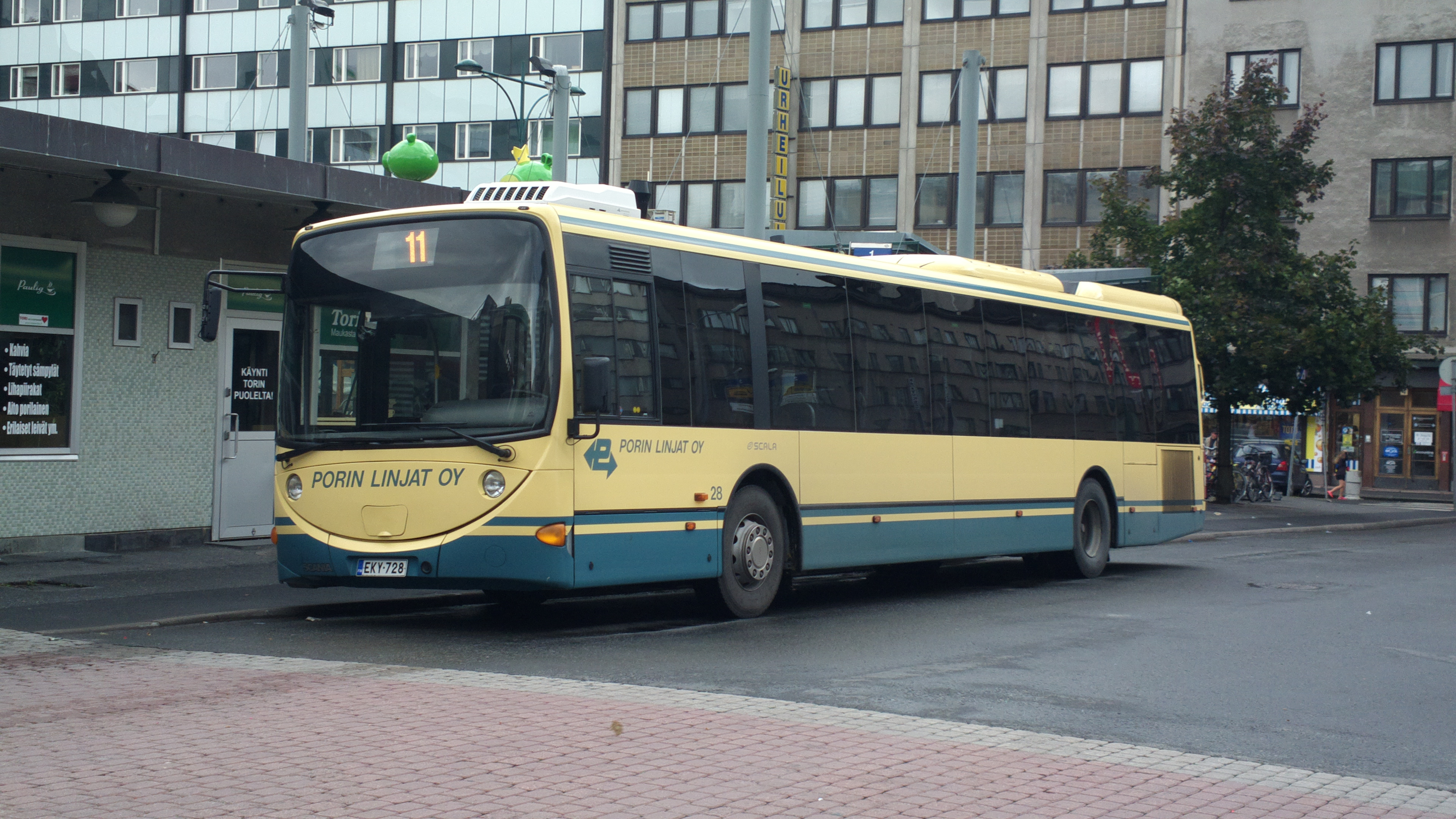 Porin Linjat bus at Kauppatori in Pori